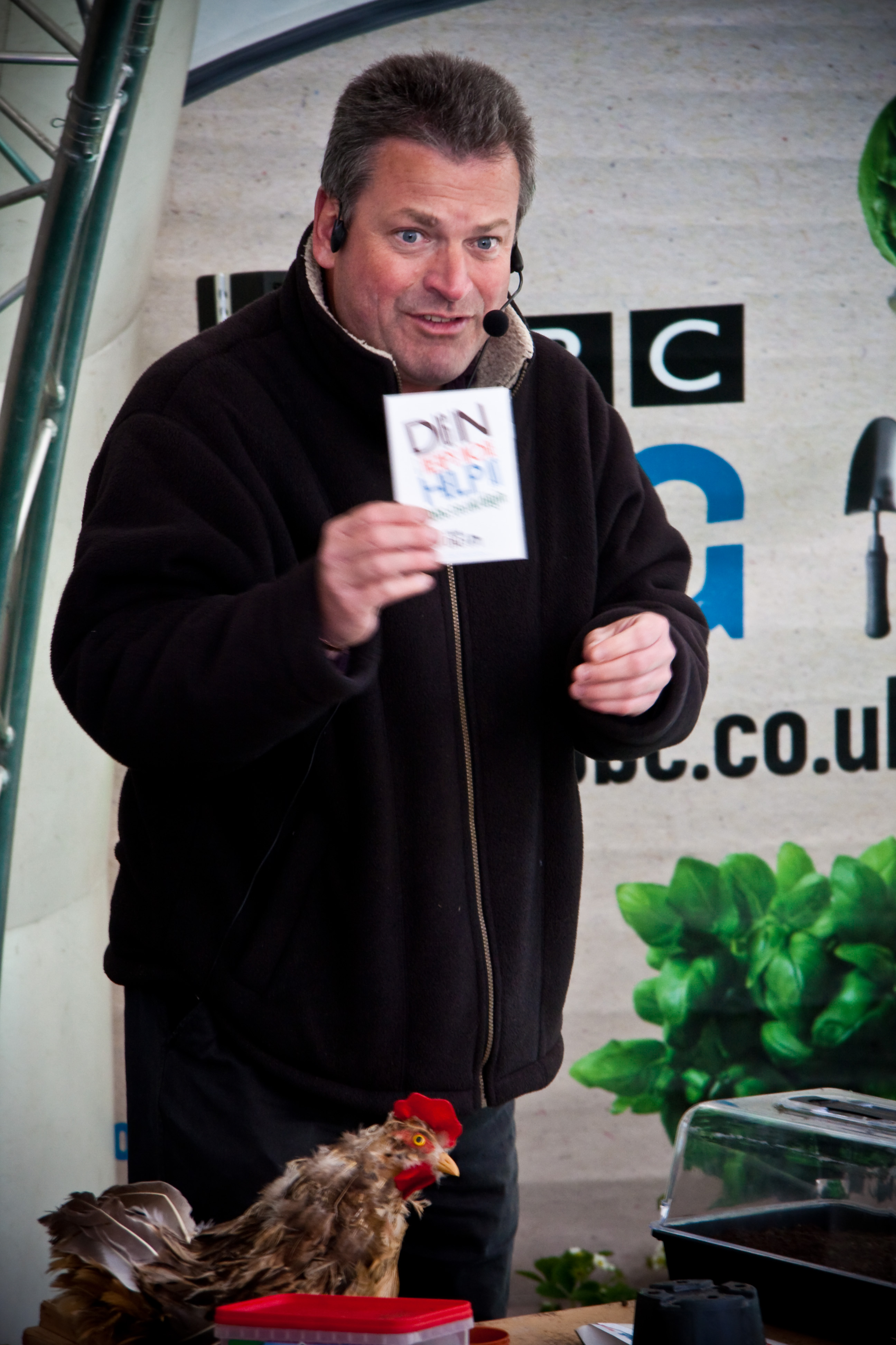 Matthew Biggs of Gardener's Question Time, at the May Merrie festival in Kingston, Surrey.